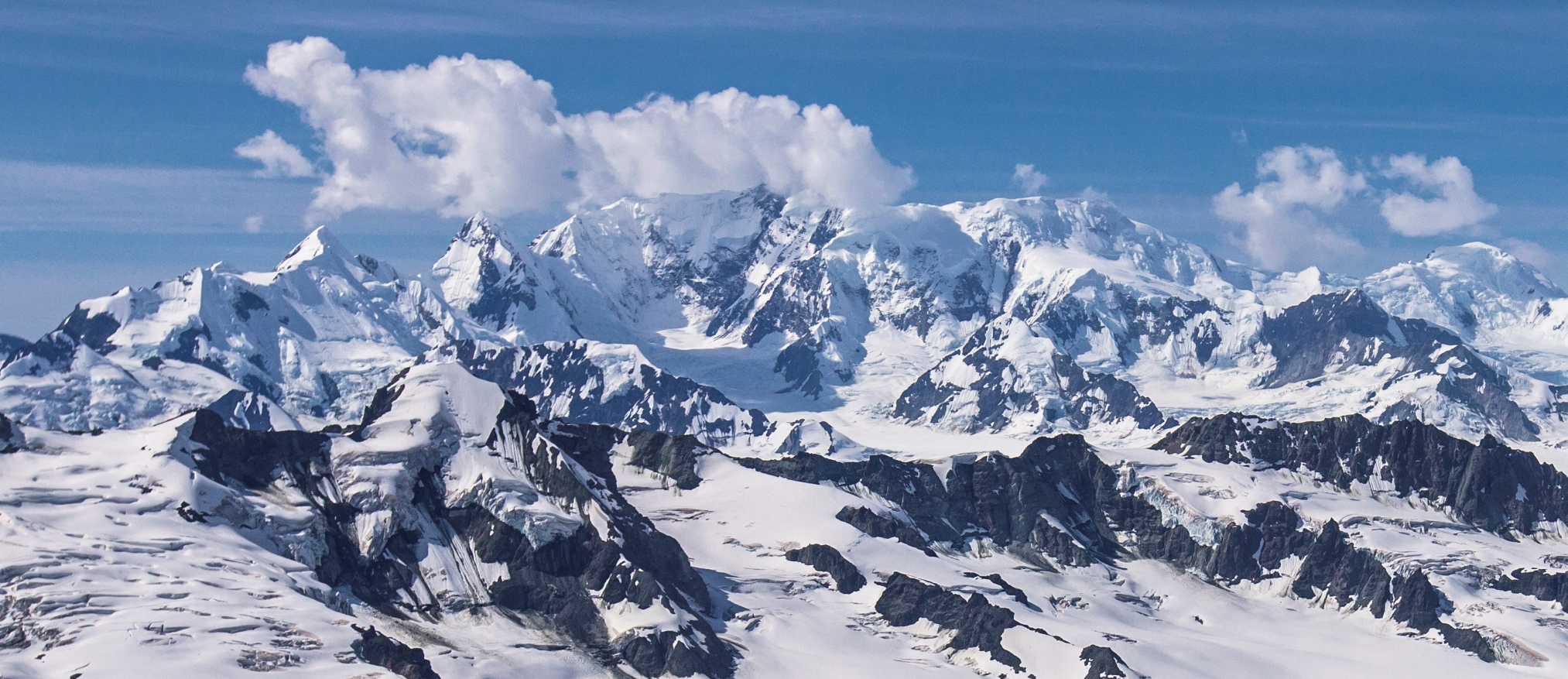 Mount Steller (in clouds) is the high point of Waxell Ridge at Bagley Icefield